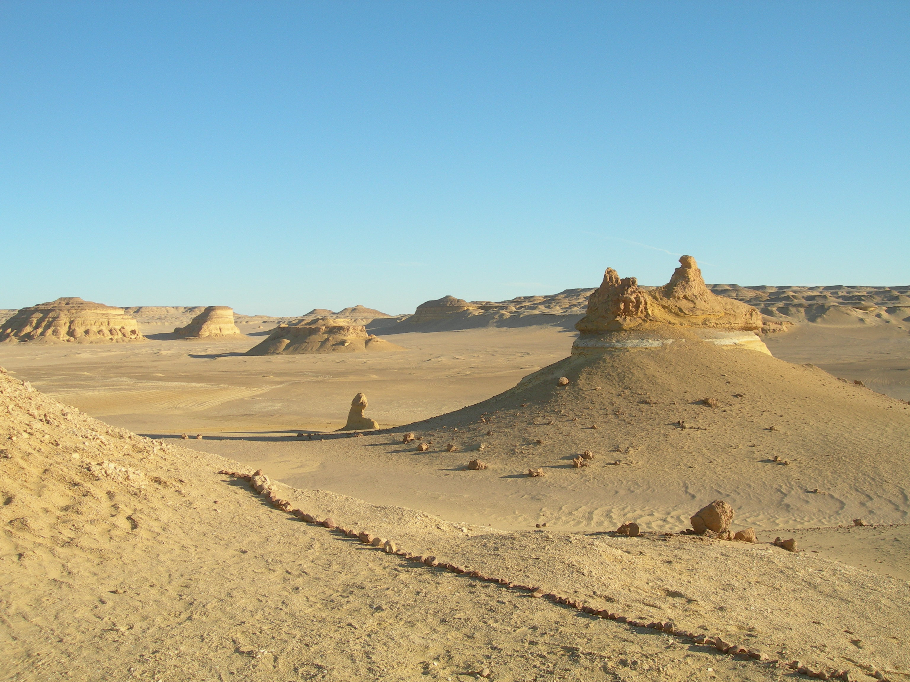 Wadi Al-Hitan (Whale Valley) (Egypt)